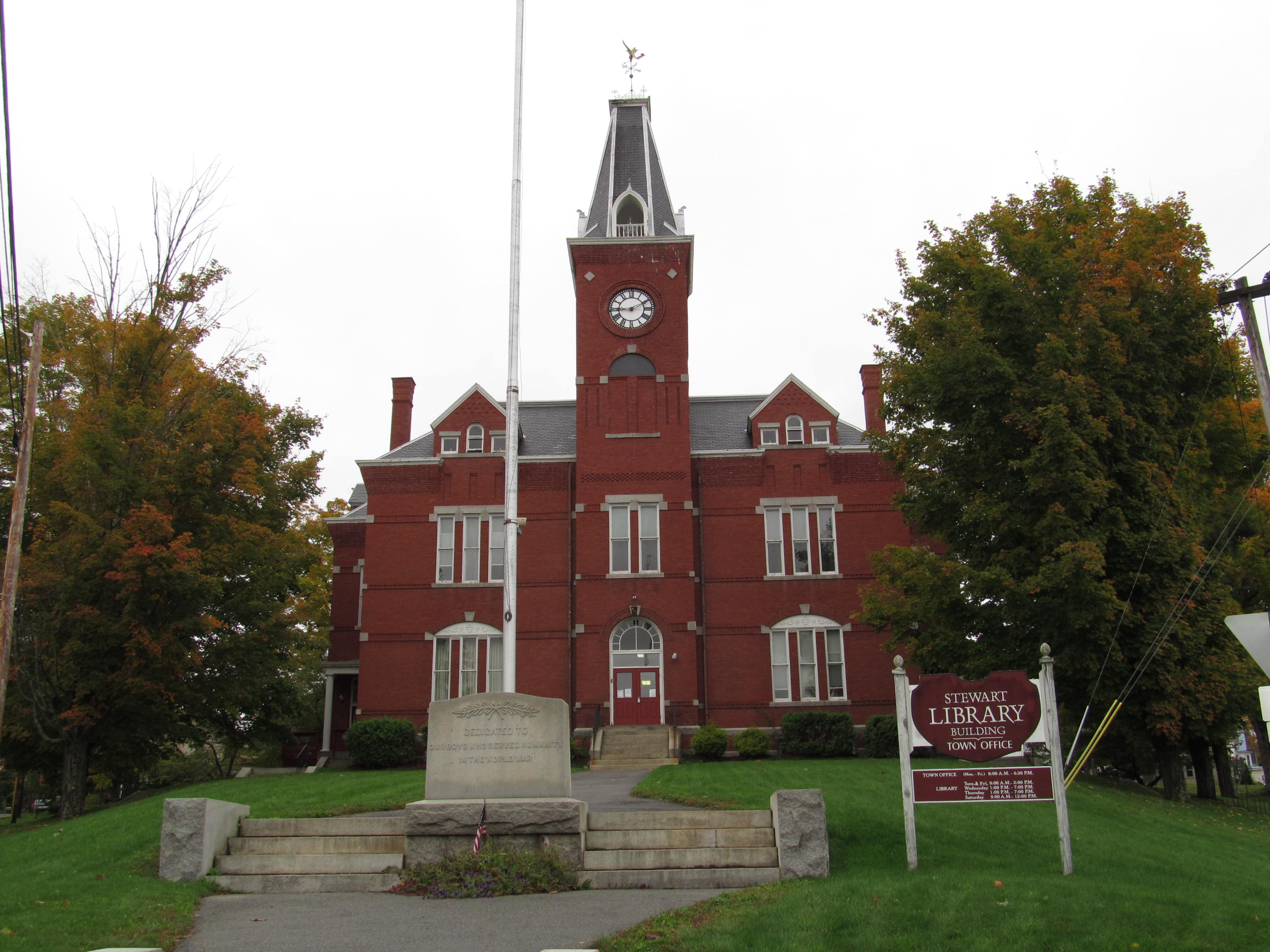 Stewart Free Library, Corrina, Maine.